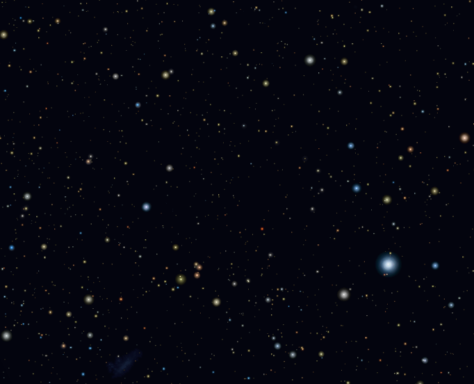 Image of Horologium and Reticulum